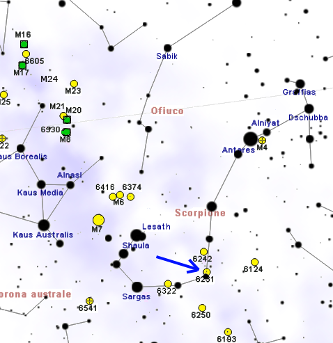 NGC 6231